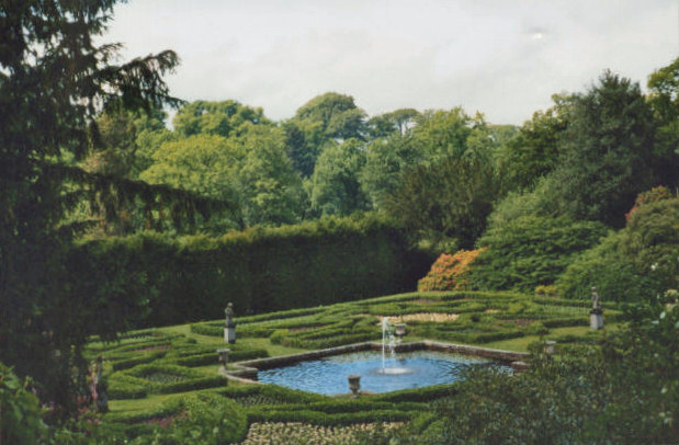 Lyme Park water garden National Trust private garden